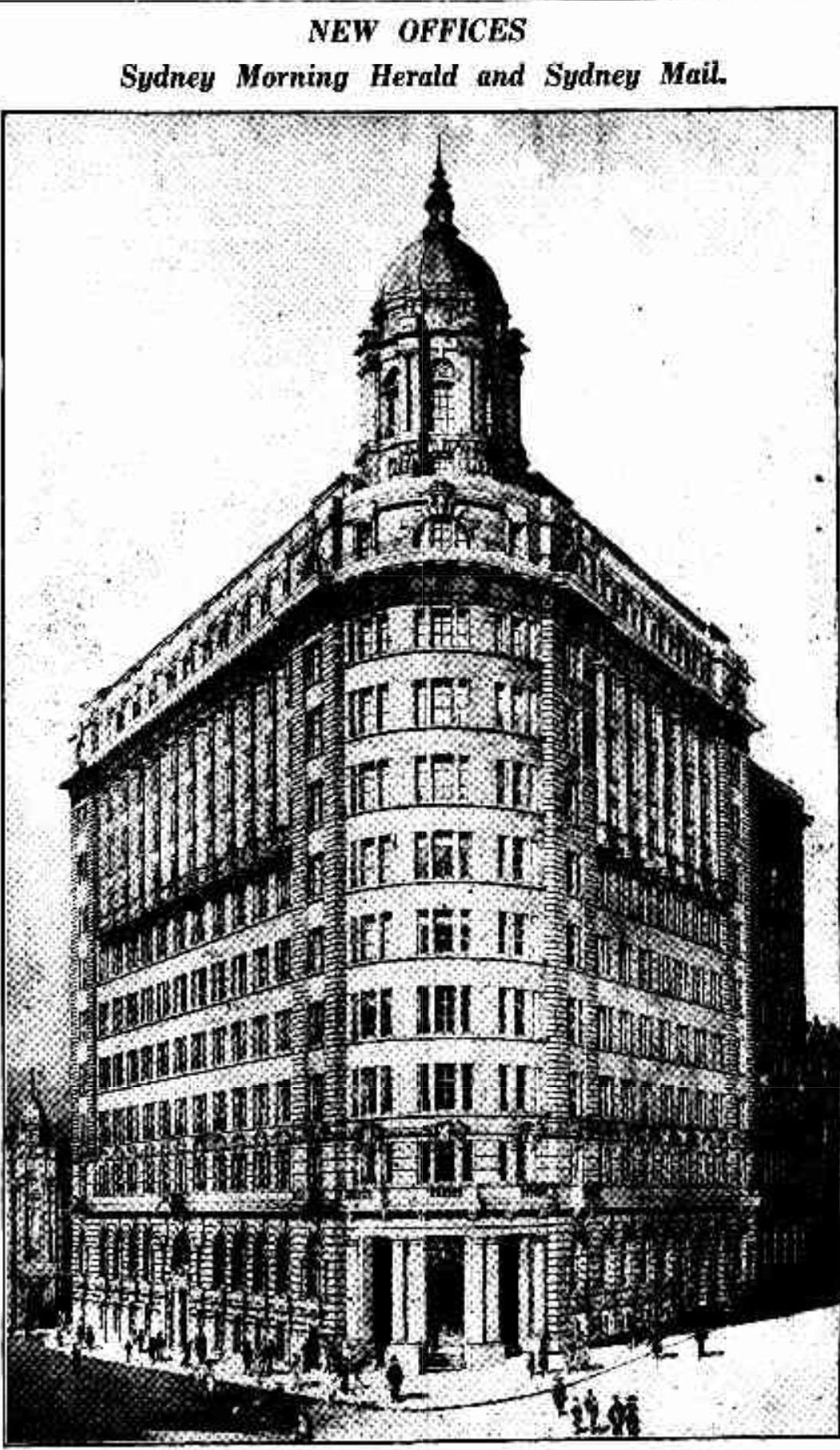 Sketch of new offices to be constructed for the Sydney Morning Herald and Sydney Mail, 1924. It would replace the 1856 Sydney Morning Herald building on the same (but enlarged site). The new building later become the Bank of New South Wales, and is currently a hotel.